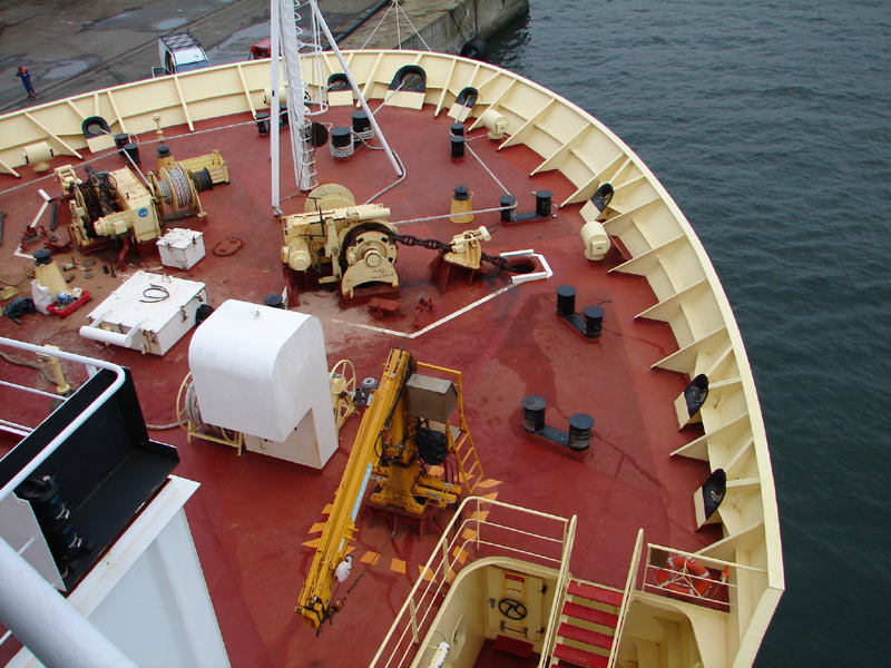 The forecastle with mooring gear onboard the dredge Samuel de Champlain